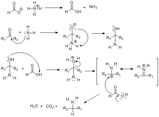 Leuchart reaction mechanism diagram